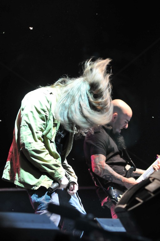 Anthrax at the 2009 INmusic Festival, Zagreb, Croatia